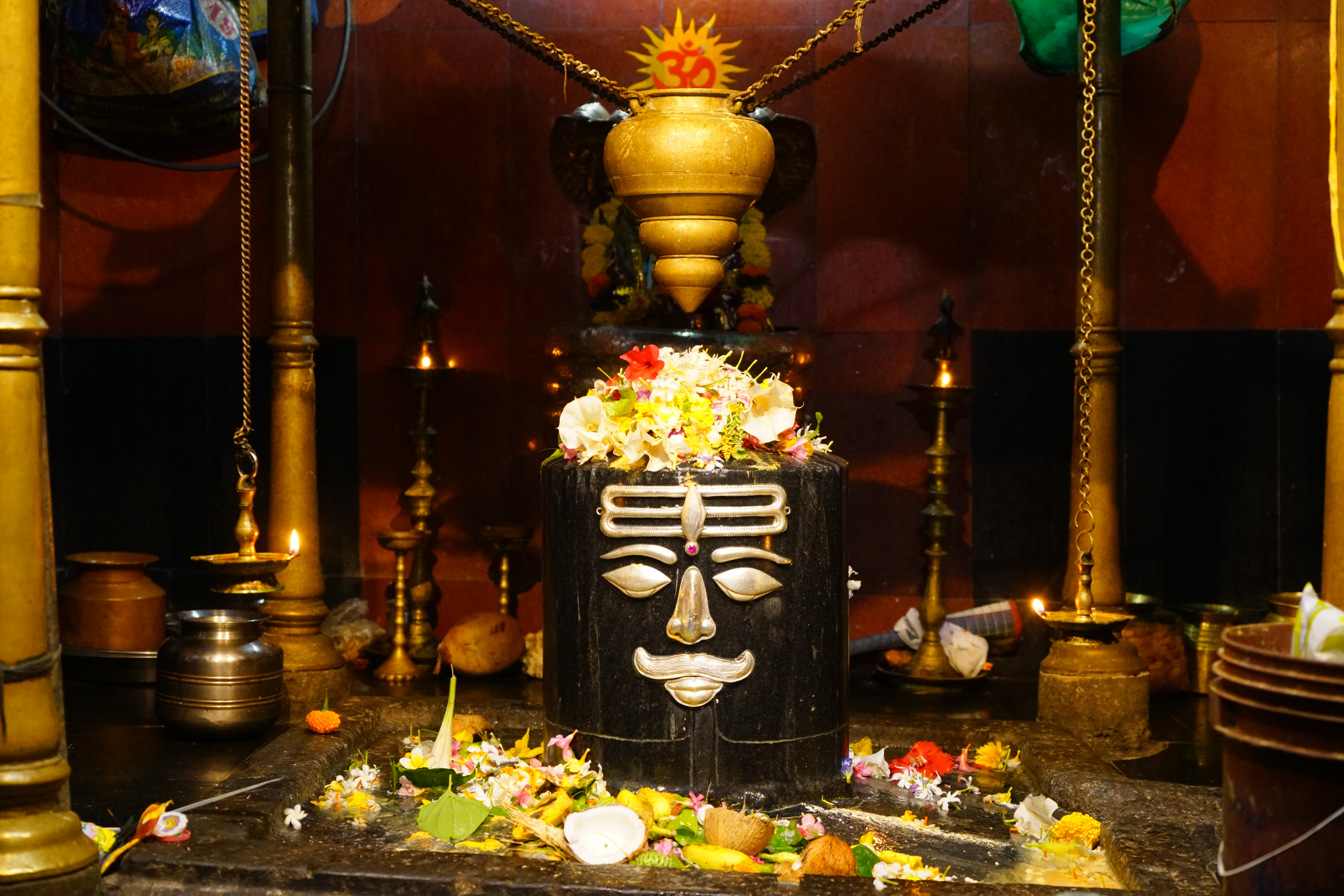 Shiva idol at uttareswara swamy temple, balaga, srikakulam, Andhra Pradesh